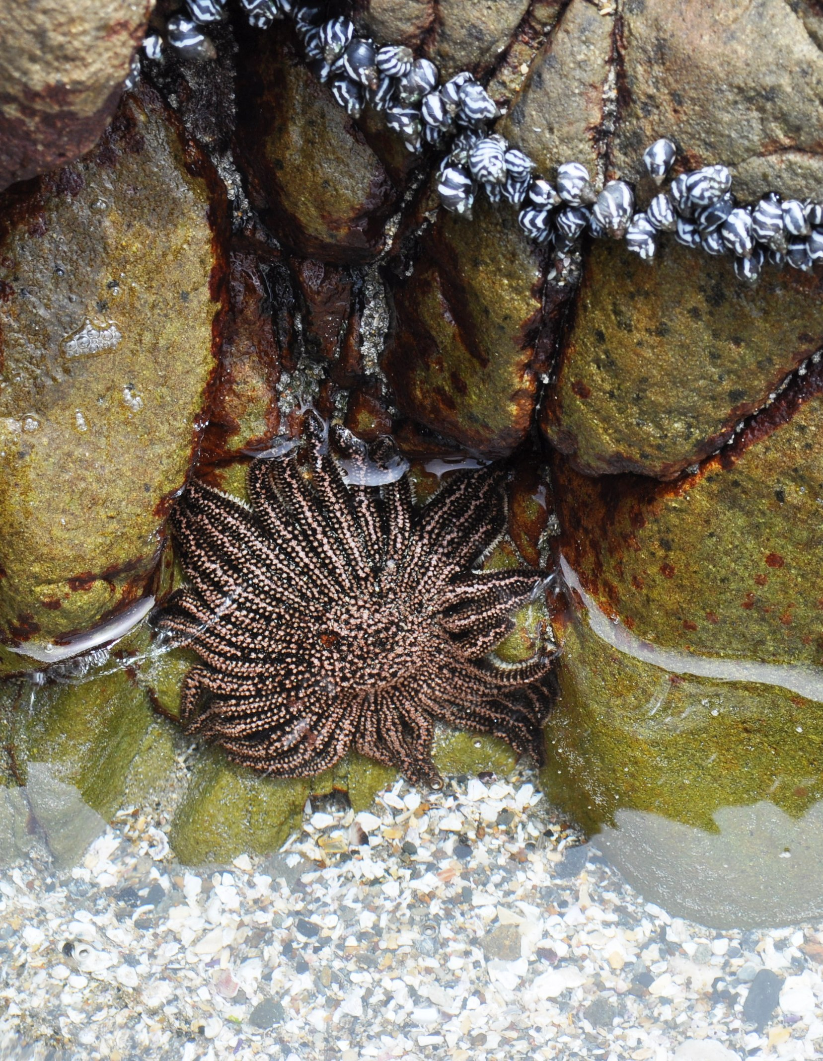 Heliaster_helianthus on the rocks at the coast of Los Molles